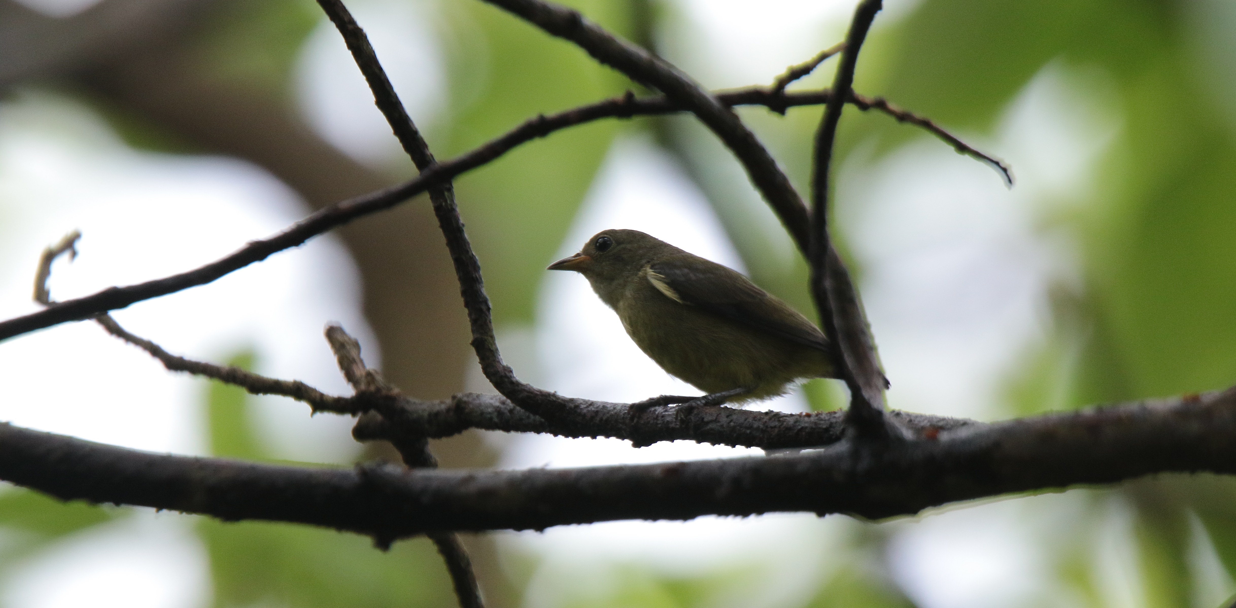 Fire-breasted Flowerpecker